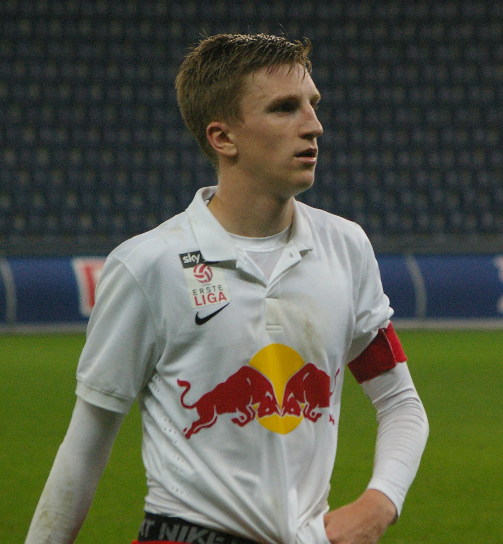 league match Austria 2nd league